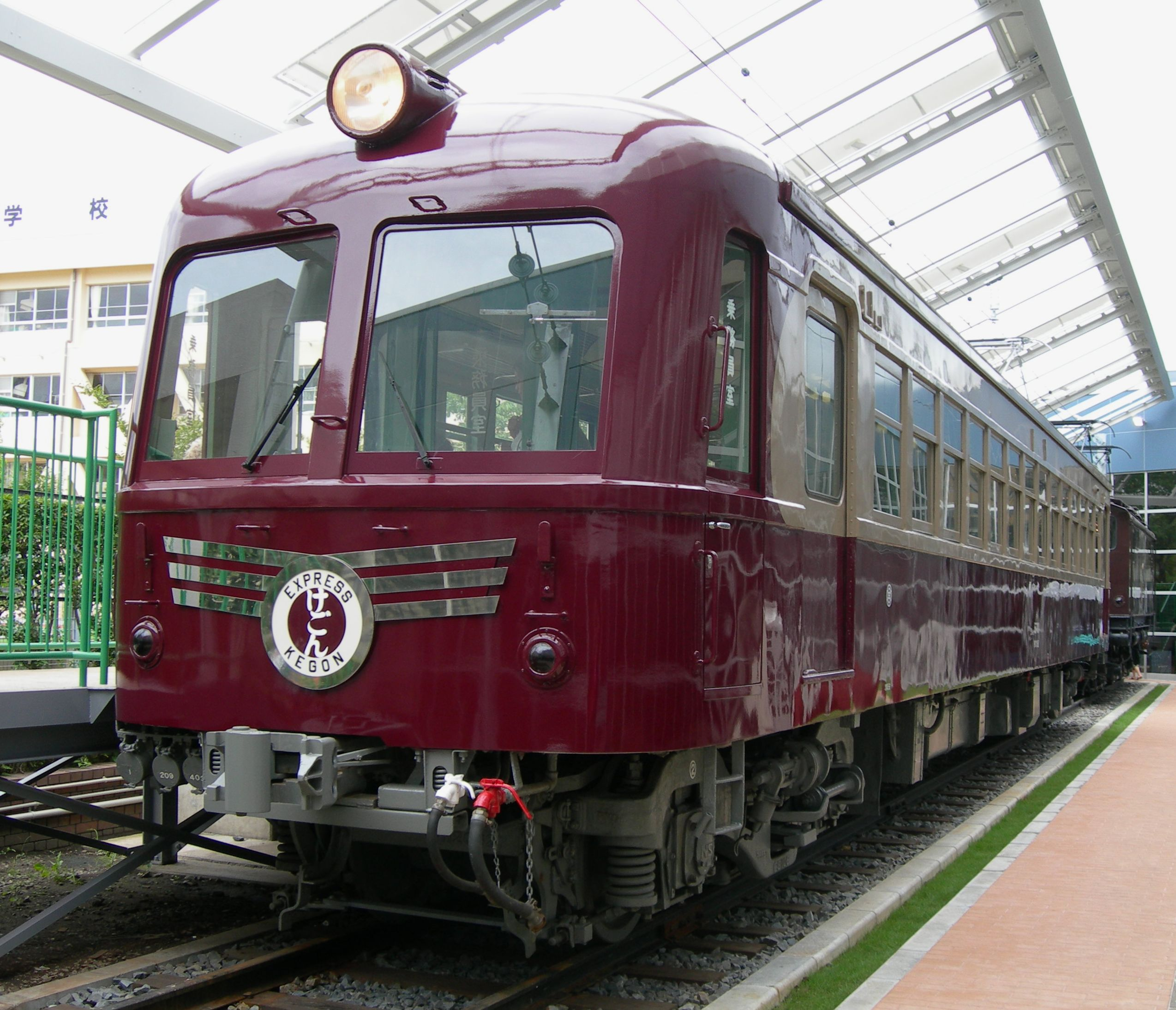 Tobu 5700 series express EMU car preserved at the Tobu Museum in Tokyo